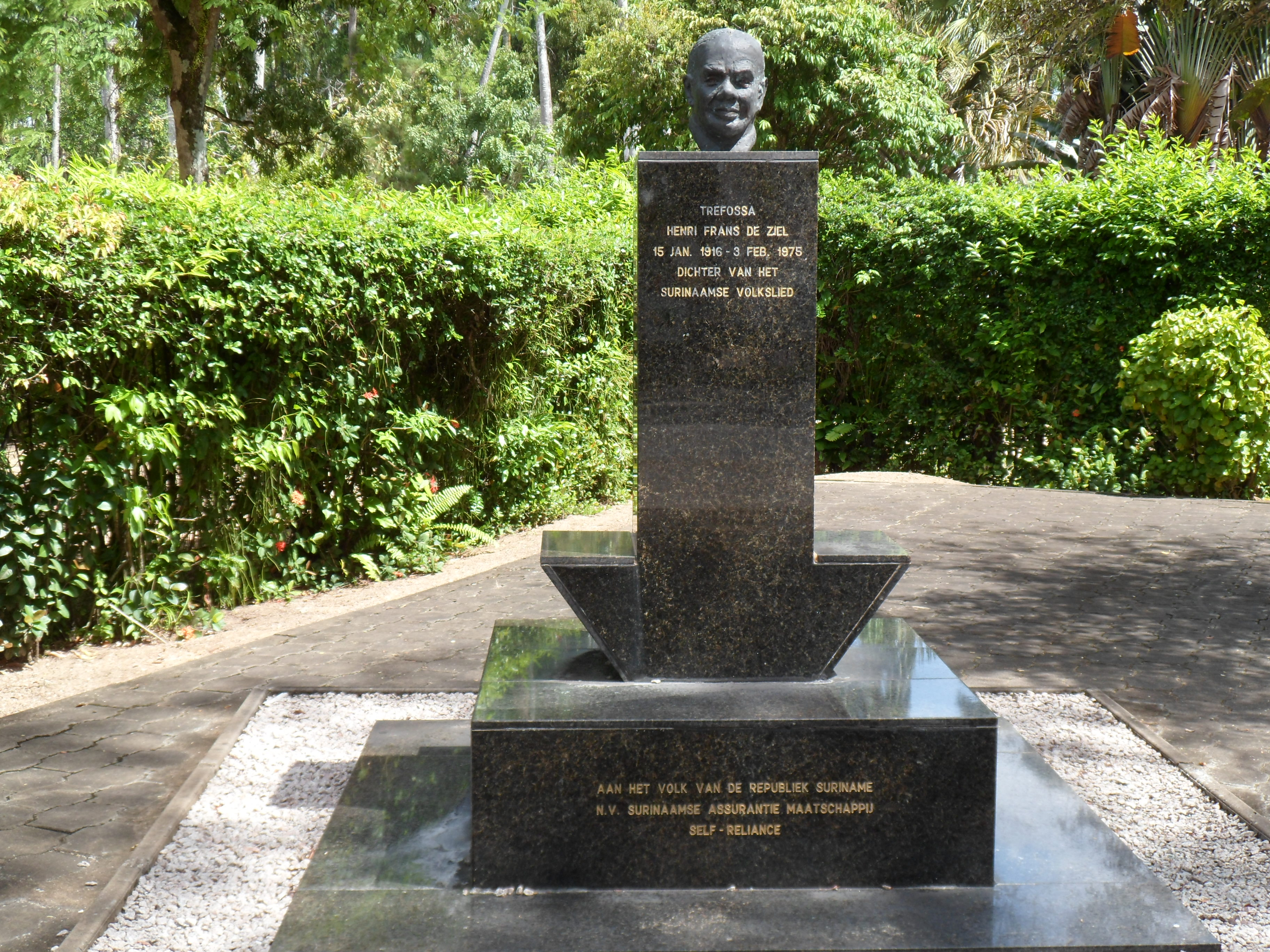 monument of Trefossa, pseudonym of Henni Frans de Ziel